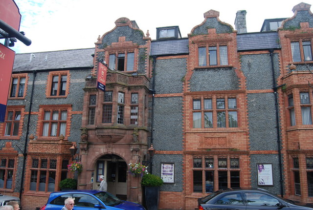 Photograph of the front of the Castle Hotel, Conwy, Wales